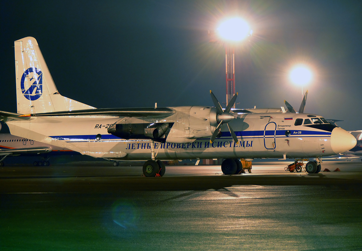 Flight Checks and Systems Antonov An-26L RA-26631